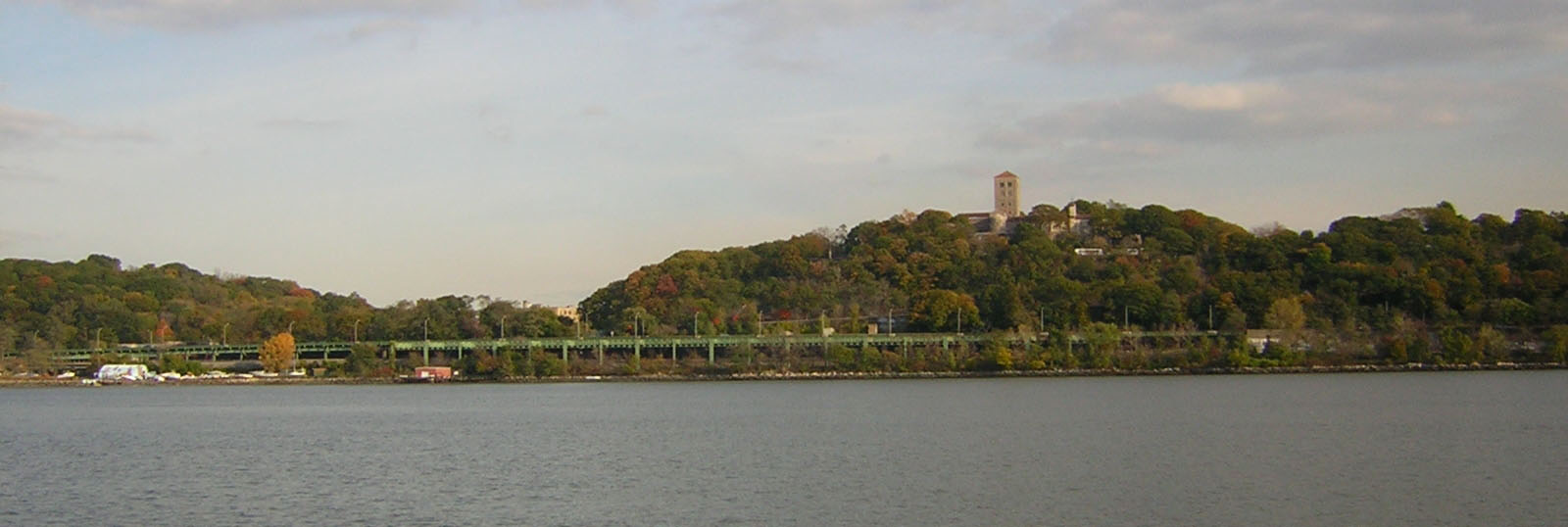 Fort Tryon Park, from a Circle Line boat in the Hudson in the afternoon, including the southern bit of Inwood Park, the Henry Hudson Parkway, and The Cloisters.